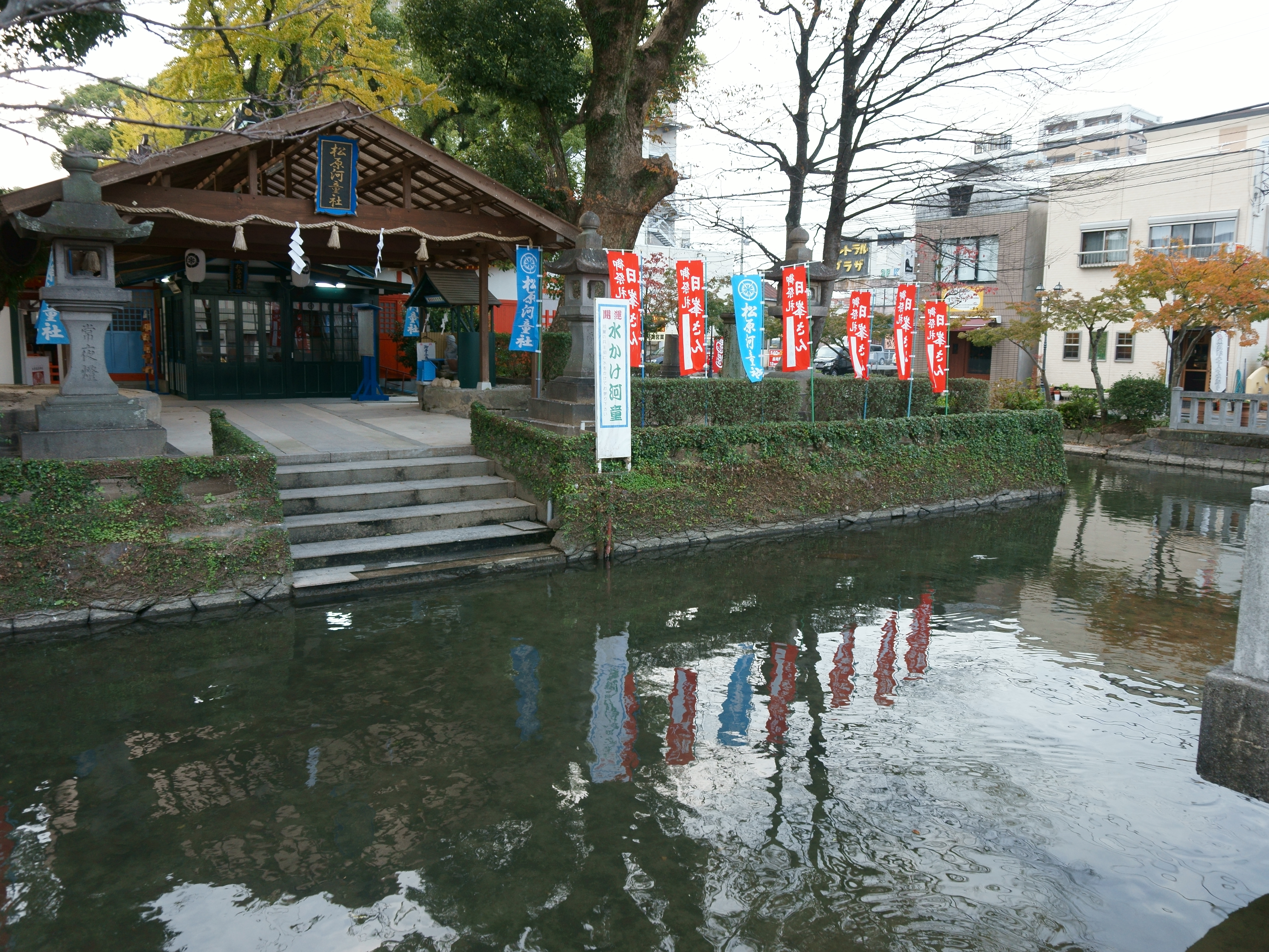 Matsubara Kawasō Shrine and Matsubara River, in Matsubara, Saga city.